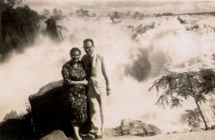 Romano Galeffi, a philosopher and professor of Estetics at Universidade Federal of Salvador de Bahia, and his wife Gina Magnavita, professor of italian philology in the same university.